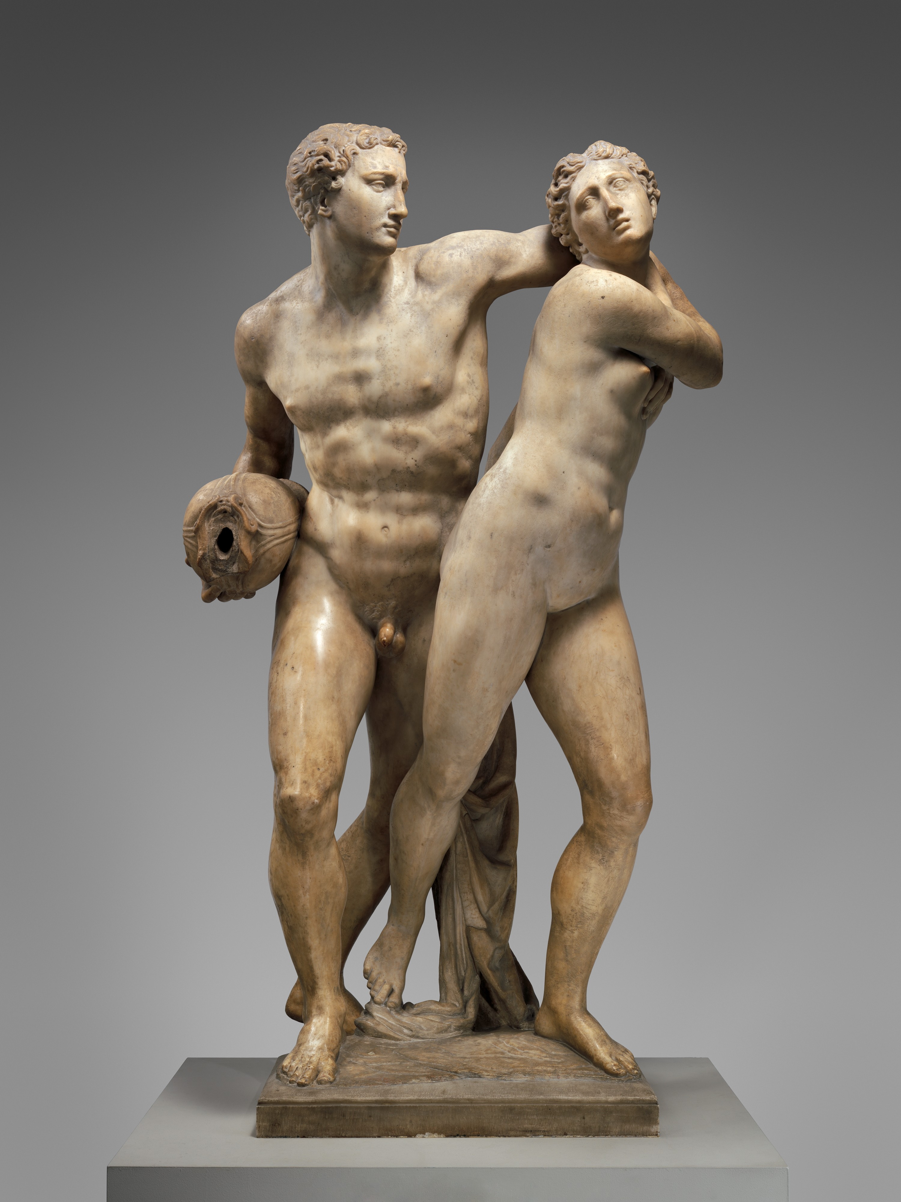 Italian, Florence; Group; Sculpture